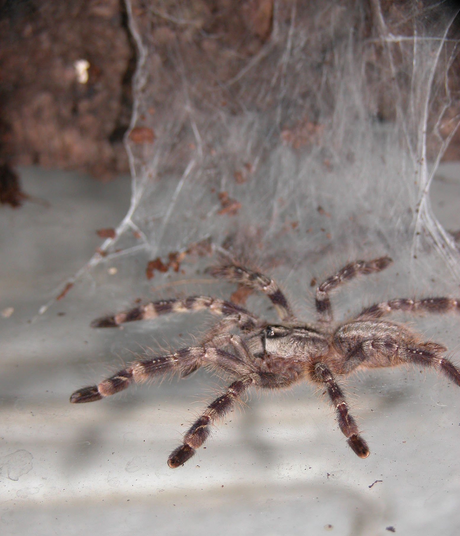 Poecilotheria regalis